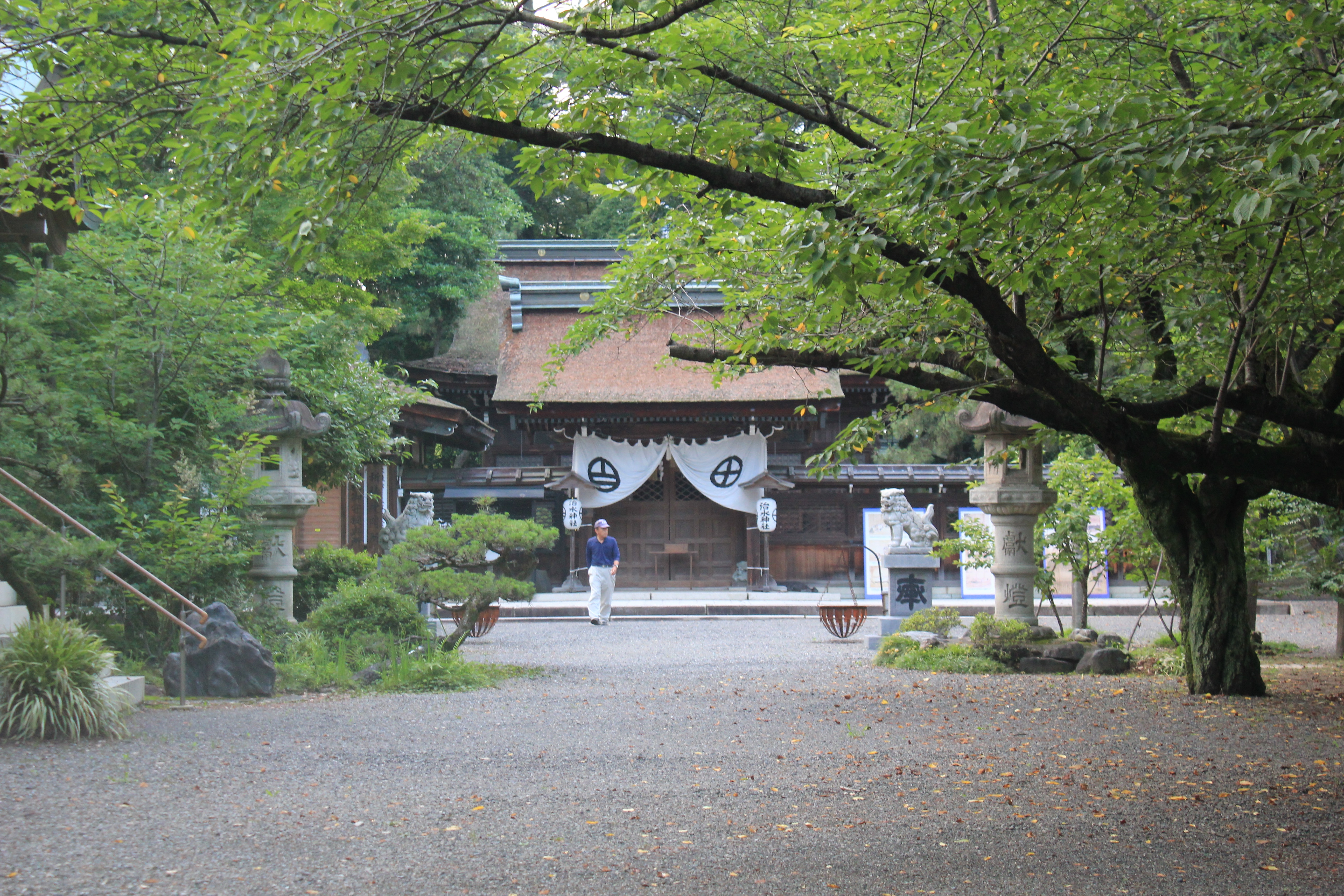 This is not a work of art. This photo is a border of Aichi Prefecture and Gifu Prefecture and Mie Prefecture of Japan. And Kiso-river, and Nagara-river, Ibi-river are called ”Kiso Sansen”. "Chisui jinjya" shrine is a Shinto shrine dedicated to those who lost in the flood control work. Many of the people who died in the construction of the three rivers is a Satsuma samurai in the Edo period.